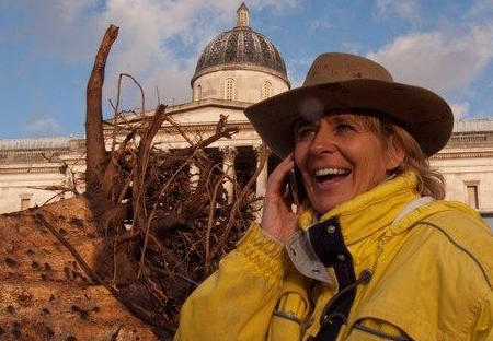 Angela Palmer with her installation The Ghost Forest in Trafalgar Square in London, 2009